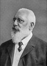 Heinrich Curschmann